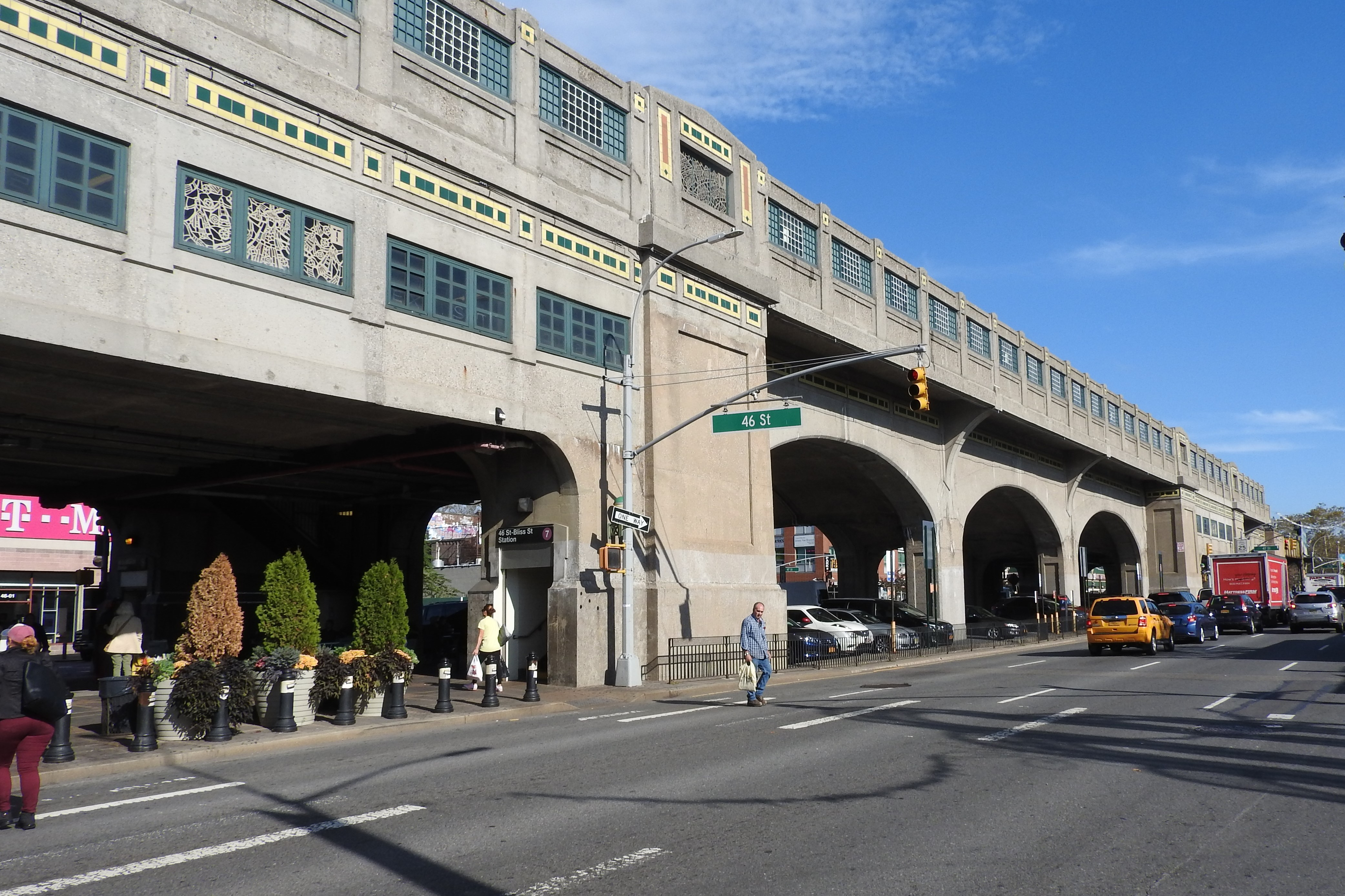 Looking east at station on a sunny midday